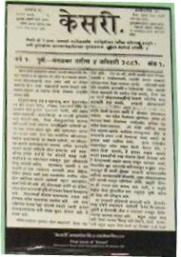 Editorial of Kesari Newspaper